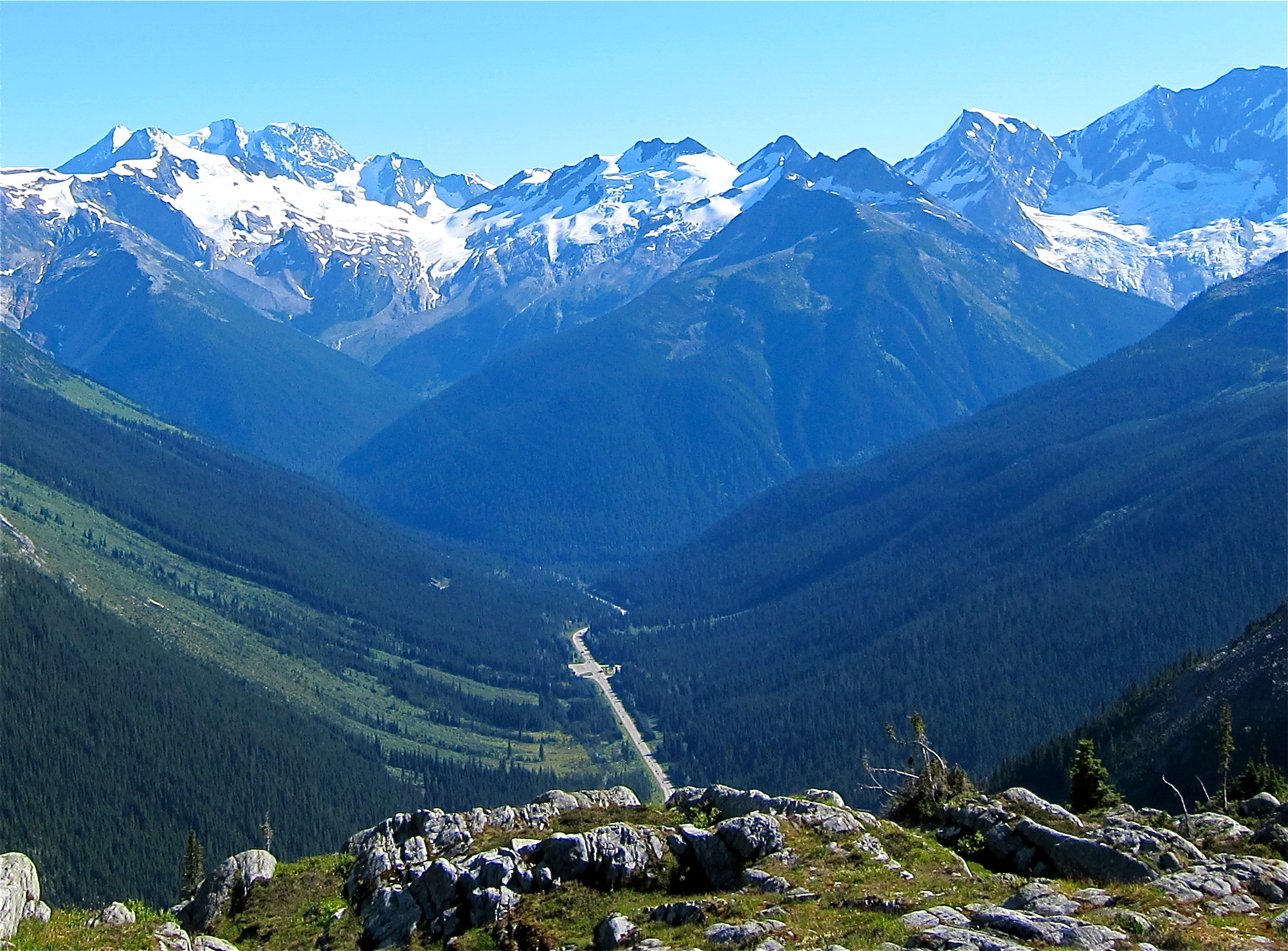 The Rogers Pass in the Selkirk Mountains of British Columbia, Canada. Trans-Canada Highway is visible in the valley bottom. View is from the "Hermit" trail.